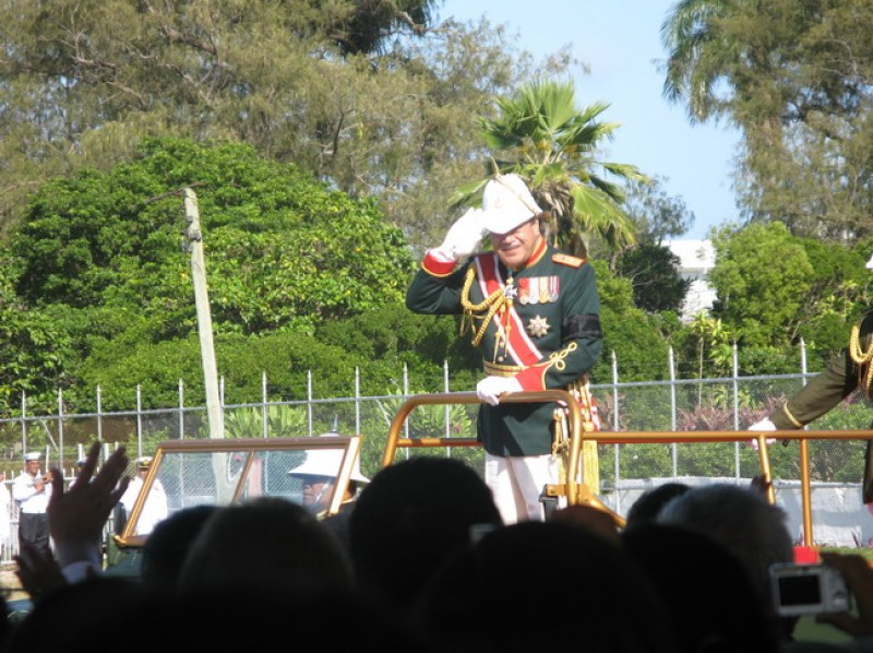 Coronation of His Majesty King George Tupou V, King of Tonga